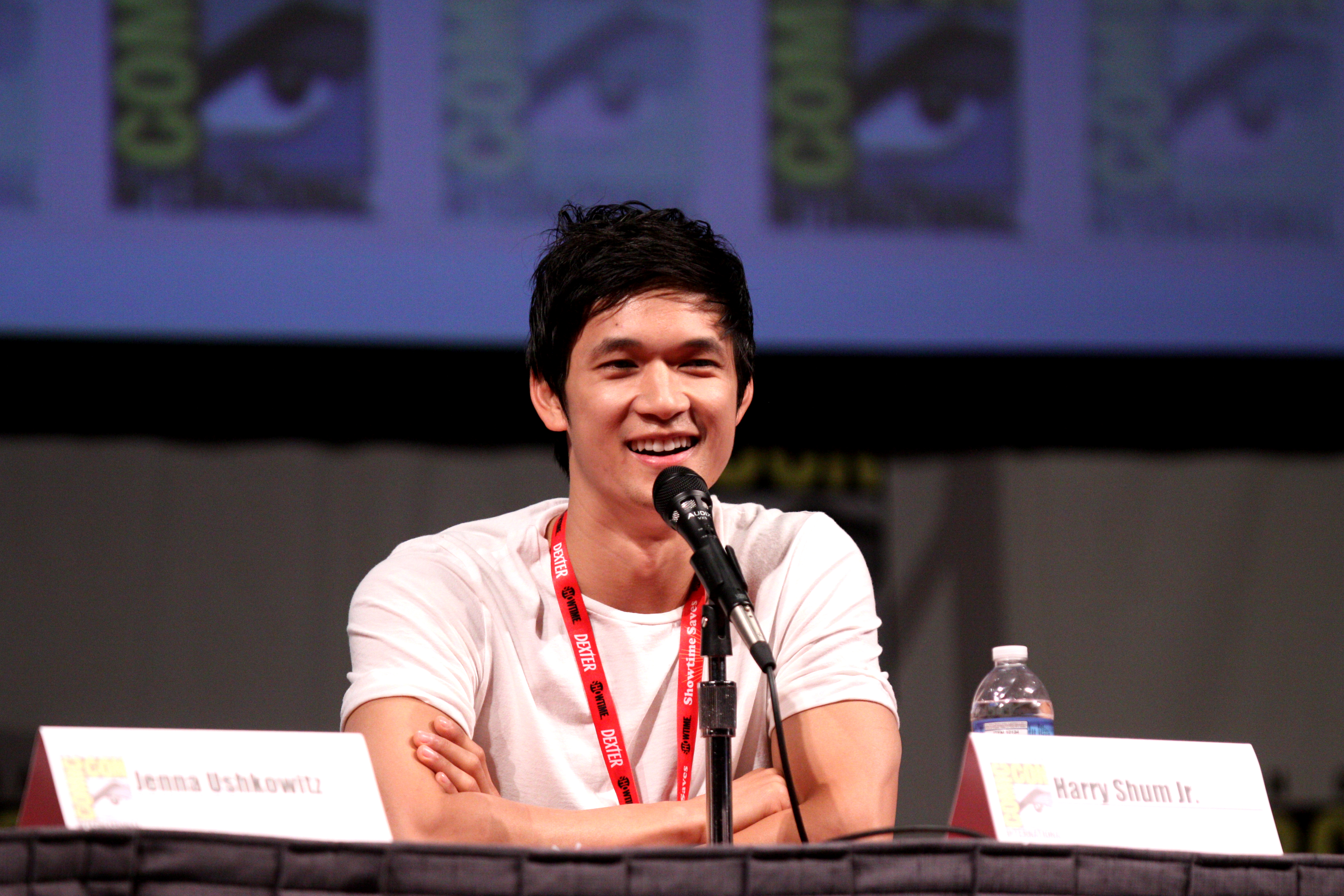 Harry Shum, Jr. at the 2011 San Diego Comic-Con International in San Diego, California.